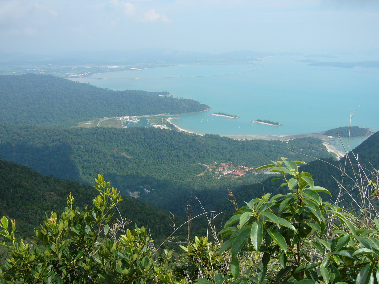 Author Shahnoor Habib Munmun